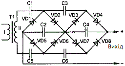 Схема двохпівперіодного помножувача